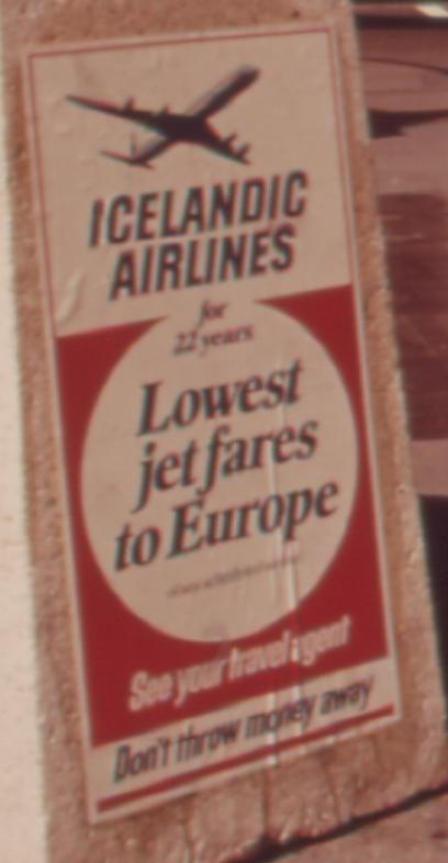 An Icelandic Airlines advertisement from May 1973, in New York's historic Fifth Avenue.